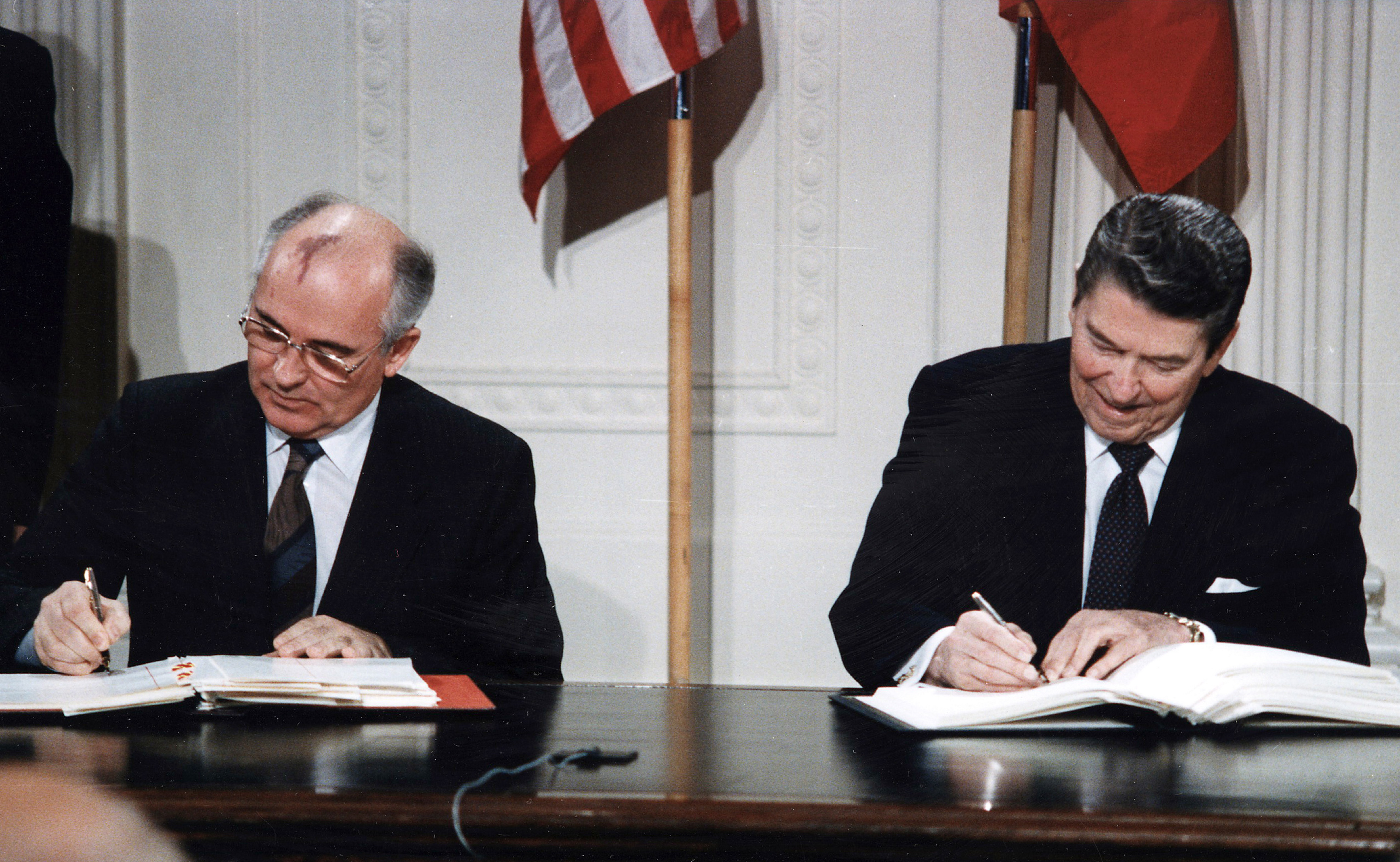 President Reagan and General Secretary Gorbachev signing the INF Treaty in the East Room of the White House.